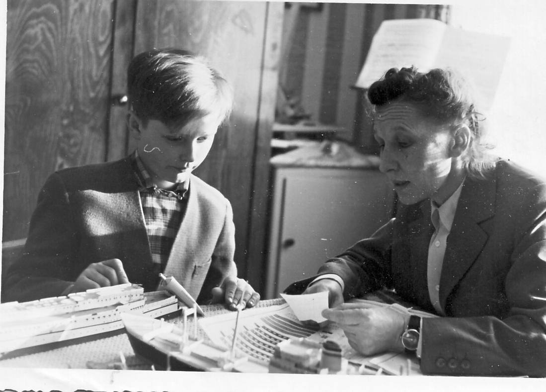 Paper models of ships, built with „Wilhelmshavener Modellbaubögen“